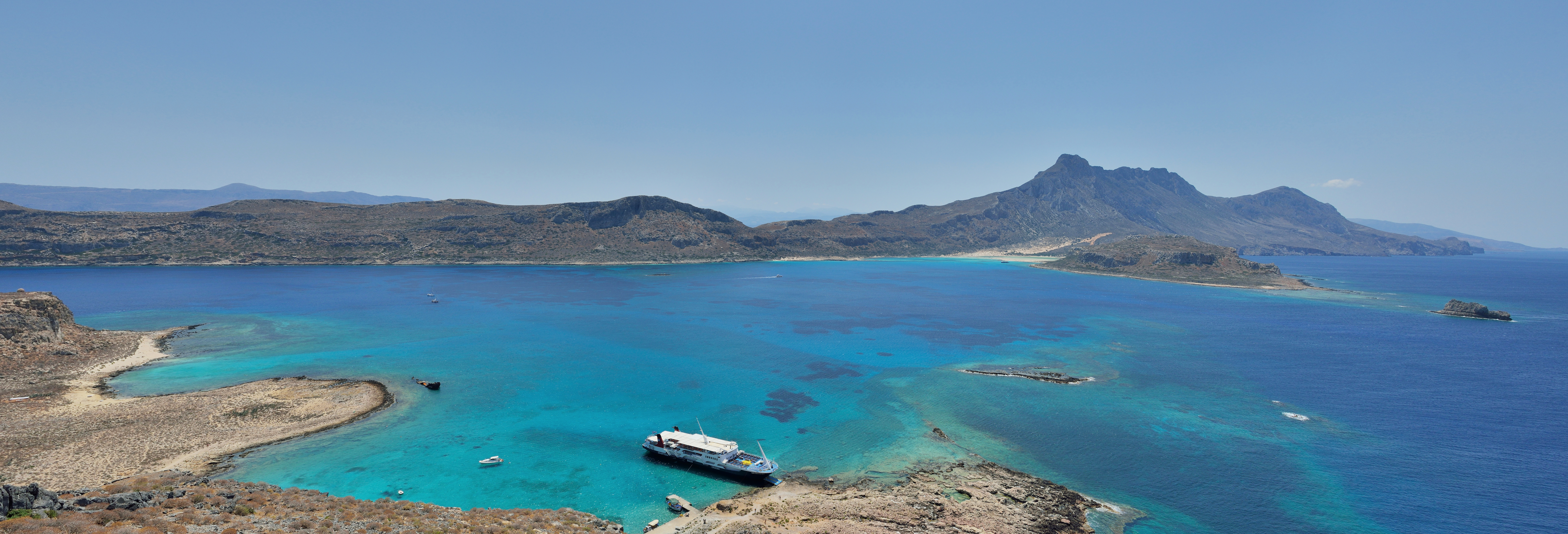 Crete: Peninsula Gramvousa as seen from Imeri Gramvousa